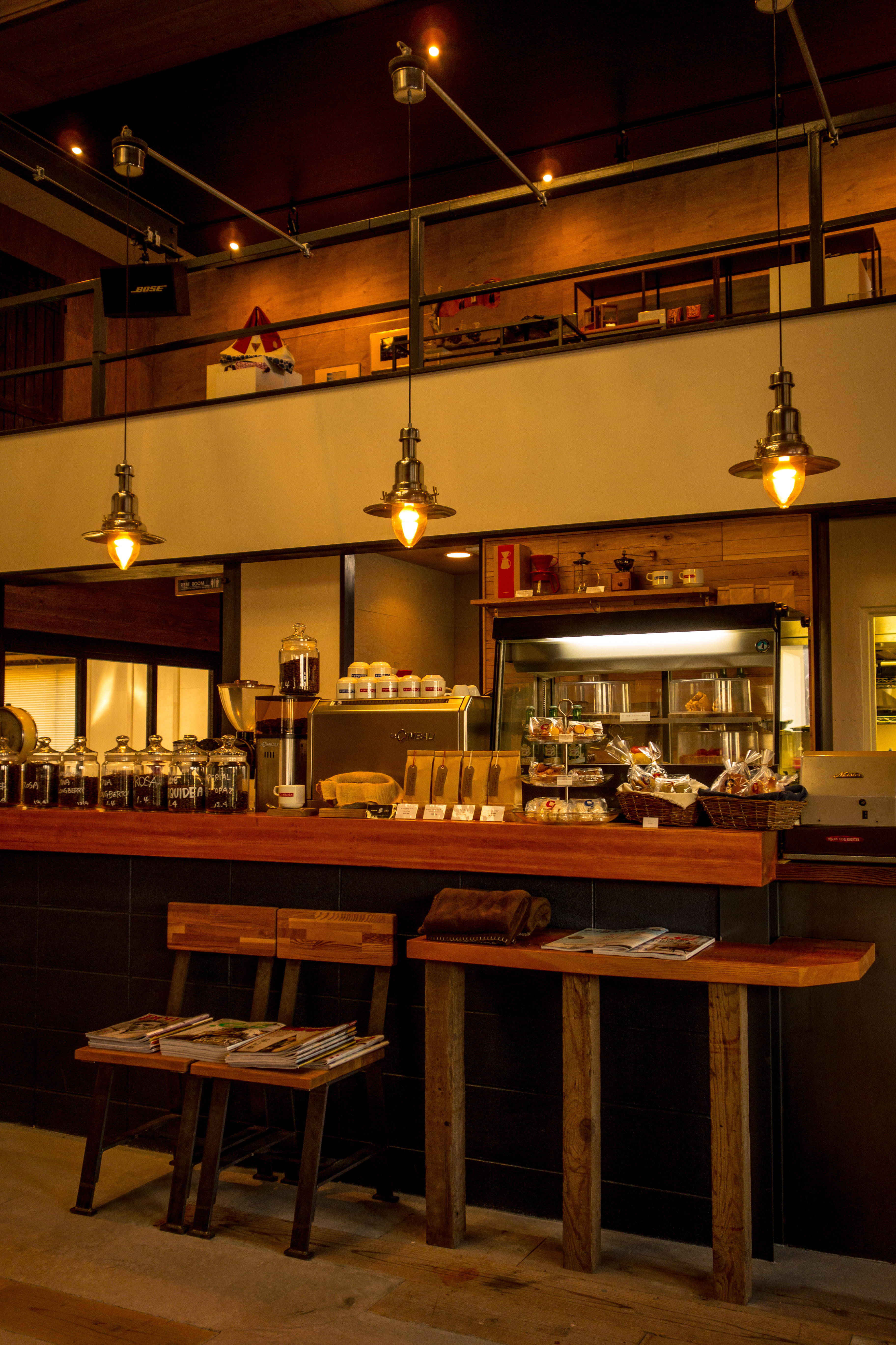 Photo of a coffee shop kimura 喫茶店 カフェ takuma.